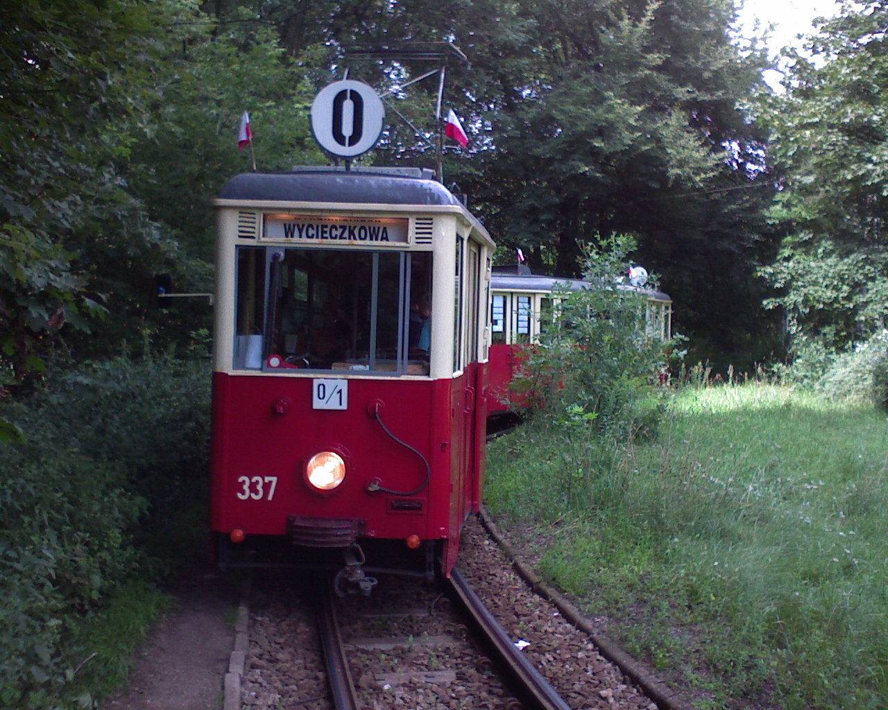 Front view of the "0" line tram (#337) in Łódź, Poland.